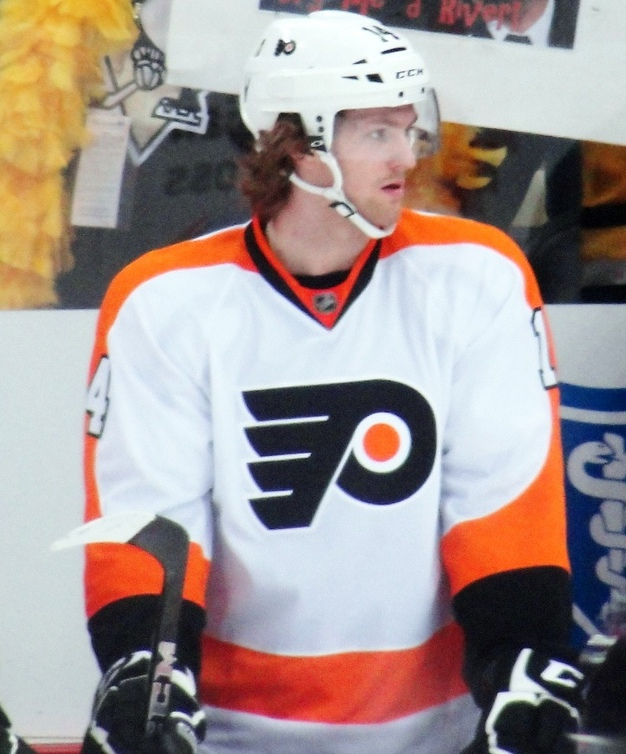 Philadelphia Flyers center Sean Couturier during a game against the Pittsburgh Penguins, April 7, 2012 at Consol Energy Center in Pittsburgh, PA.